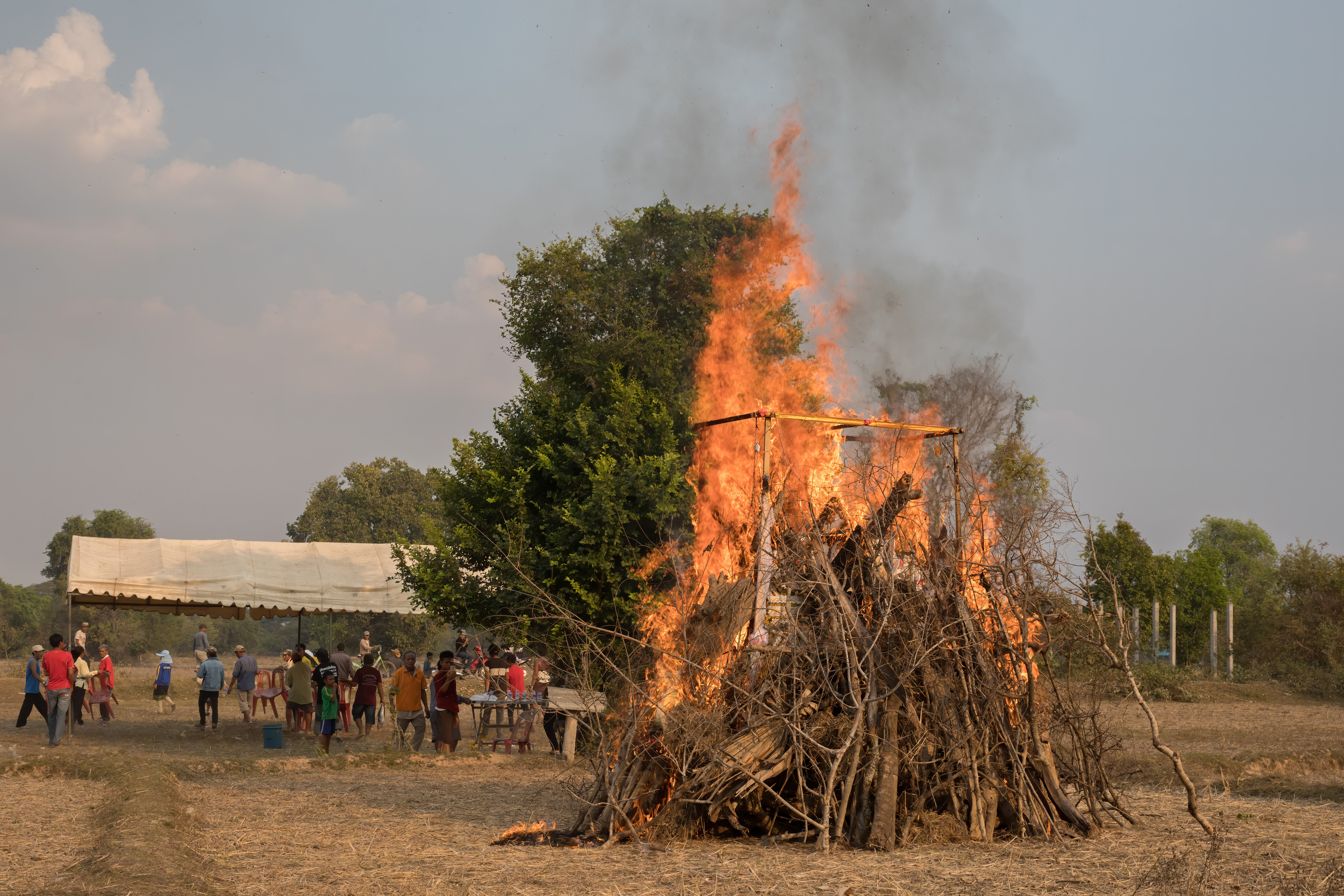 Burning pyre, during funerals in the countryside of Don Det, Laos.